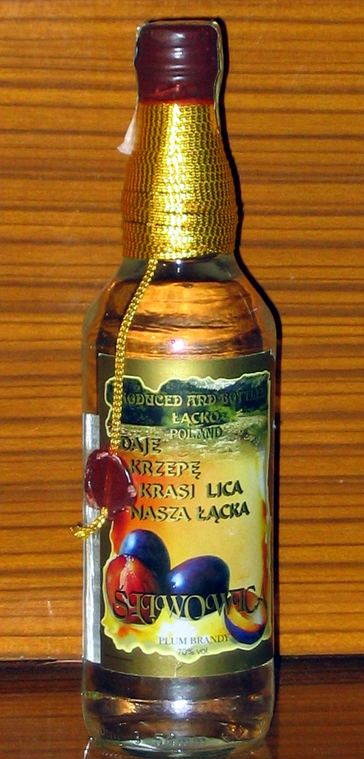 Slivovitz from Łącko, Poland.